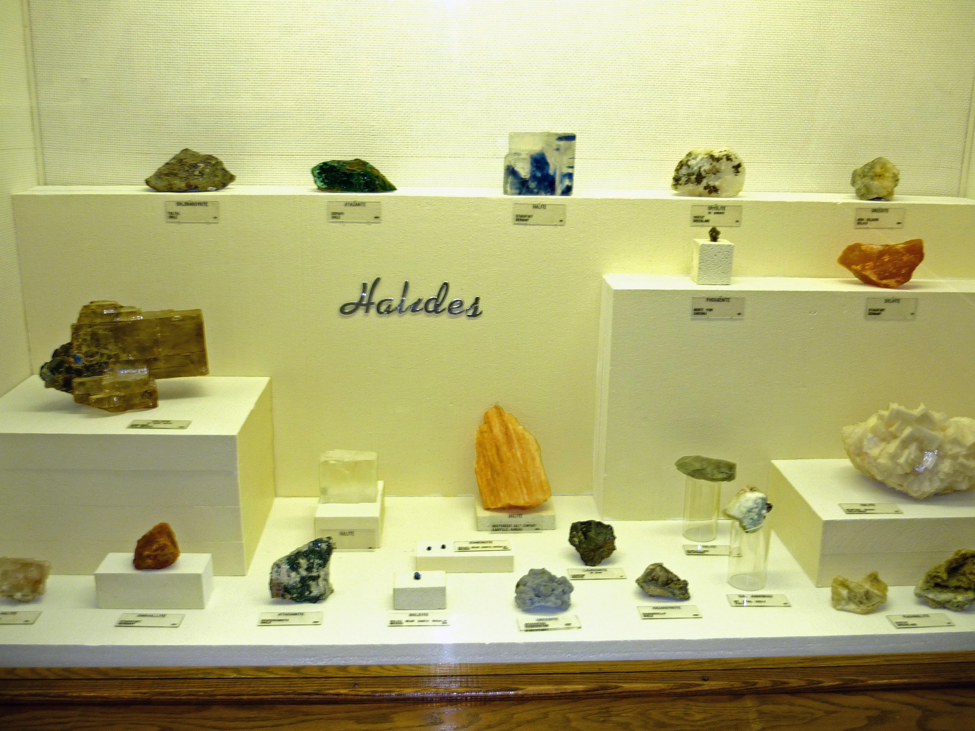 Exhibit showing Halide mineral examples. At the Museum of Geology — South Dakota School of Mines and Technology. Rapid City, South Dakota.